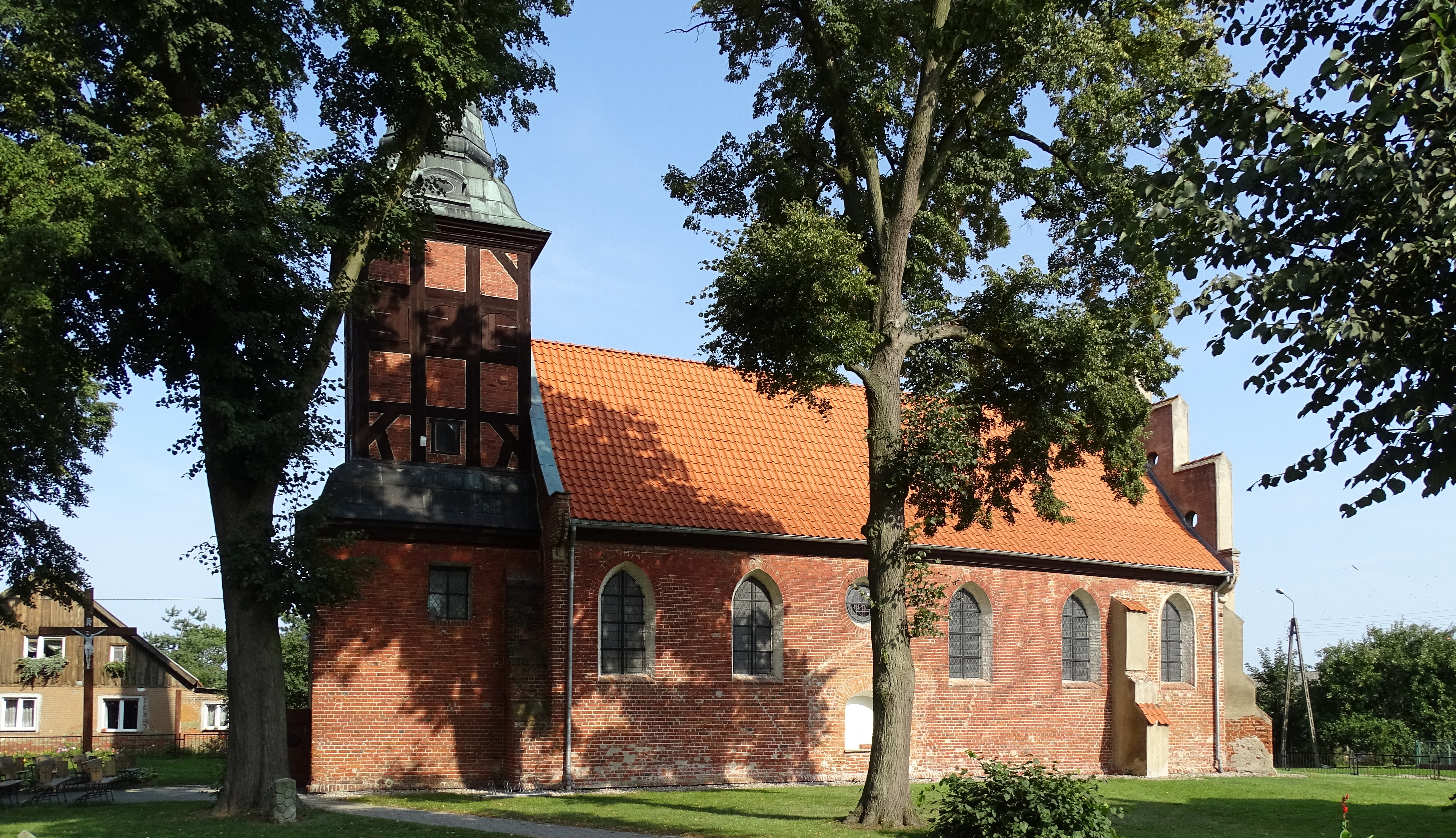 Koźliny, Pomerania, Poland. Parish church, built in the 14th century, rebuilt in the next one. The tower added in the XVII.